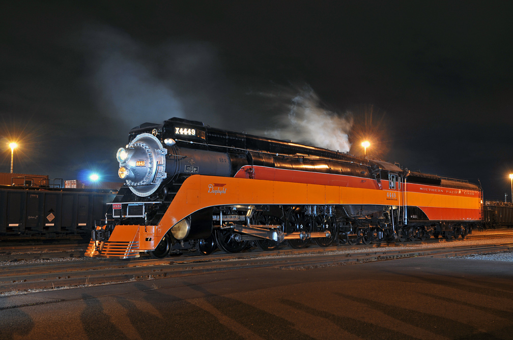 Night photo shoot June 23, 2011 Tacoma, WA